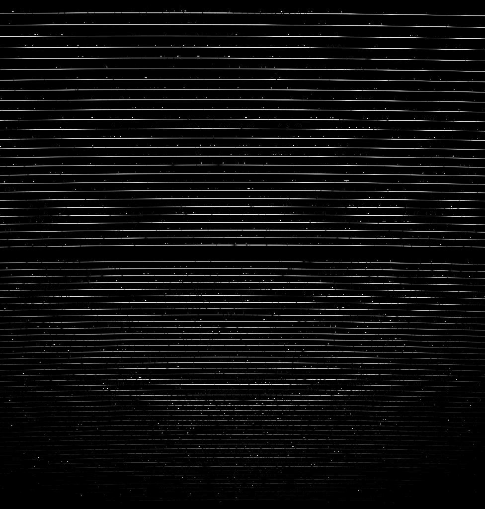 A HARPS untreated ("raw") exposure of the star HD100623, of the comparatively cool stellar spectral type K0V. The frame shows the complete image as recorded with the 4000 x 4000 pixel CCD detector in the focal plane of the spectrograph. The horizontal white lines correspond to the stellar spectrum, divided into 70 adjacent spectral bands which together cover the entire visible wavelength range from 380 to 690 nm. Some of the stellar absorption lines are seen as dark horizontal features; they are the spectral signatures of various chemical elements in the star's upper layers ("atmosphere"). Bright emission lines from the heavy element thorium are visible between the bands - they are exposed by a lamp in the spectrograph to calibrate the wavelengths. This allows measuring any instrumental drift, thereby guaranteeing the exceedingly high precision that qualifies HARPS.